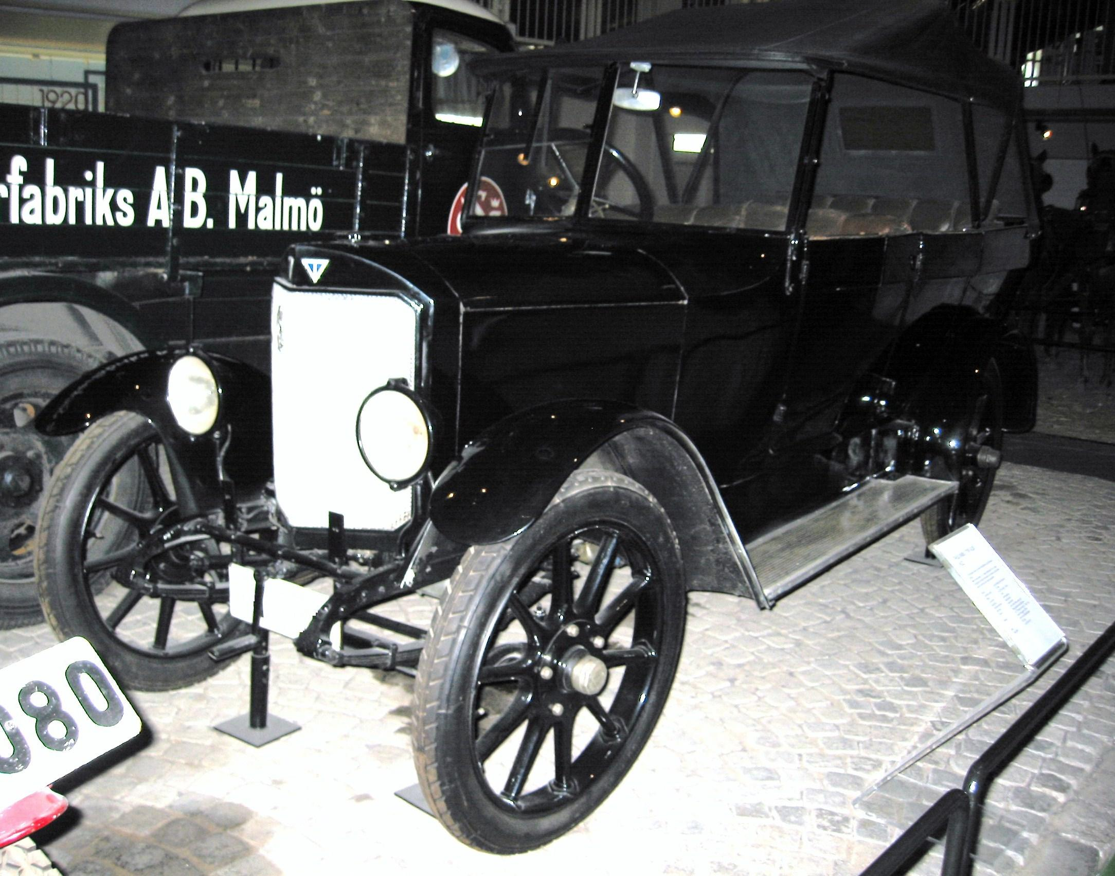 Thulin 1922